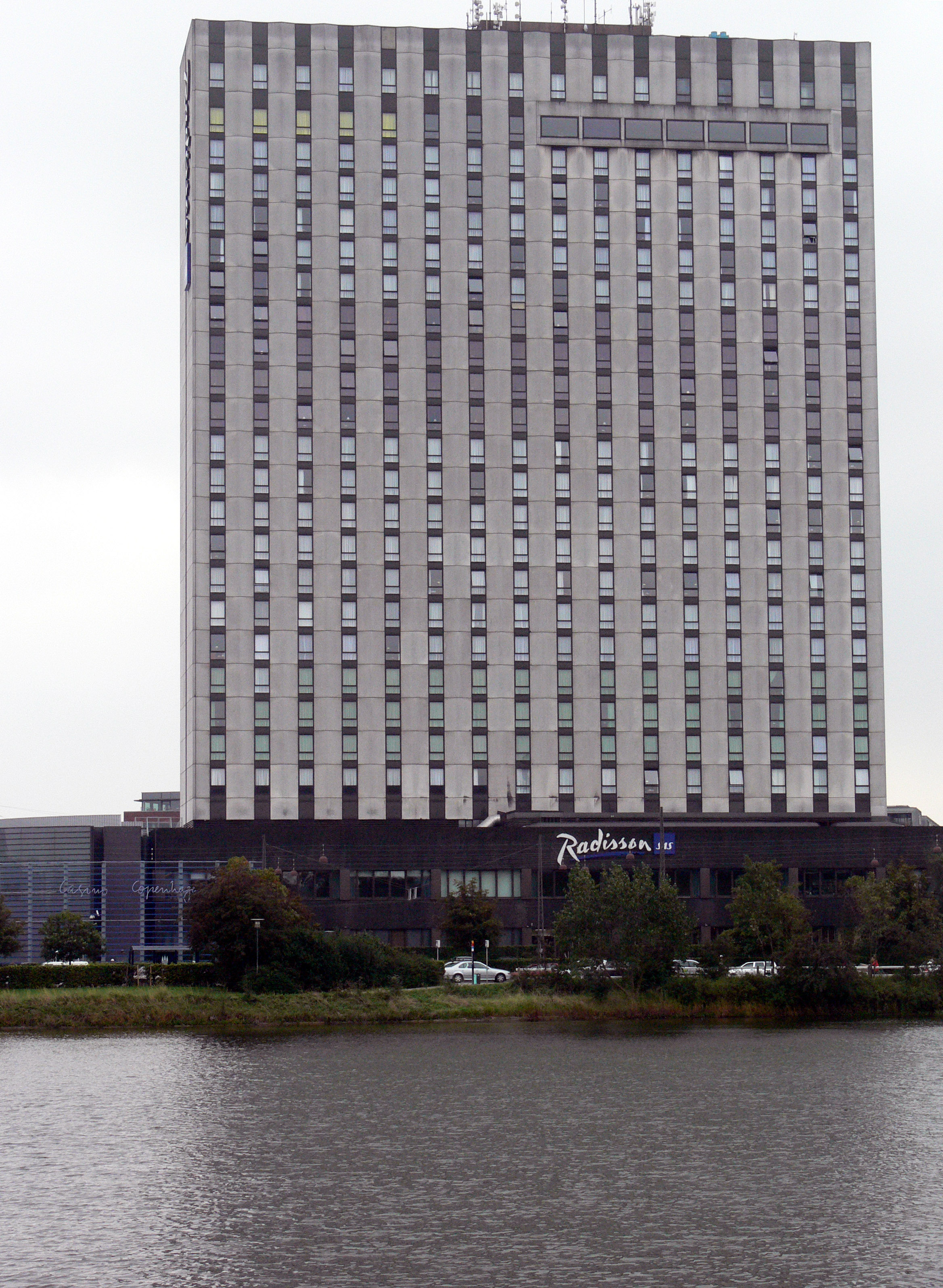 Radisson SAS Scandinavia Hotel, Copenhagen